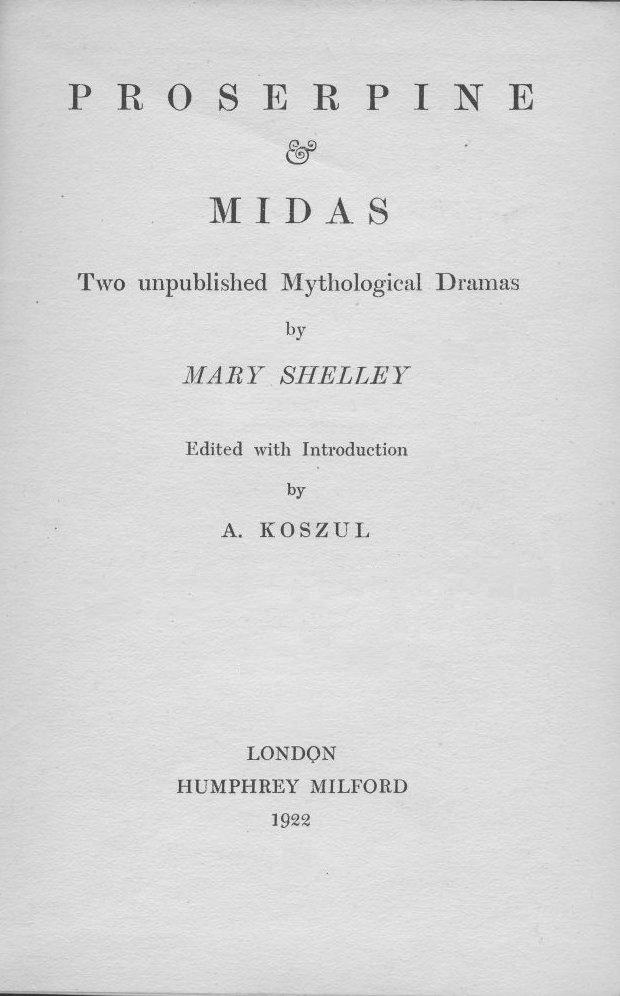 Title page from the 1922 publication of Mary Shelley's Midas and Proserpine; it is the first publication of Midas